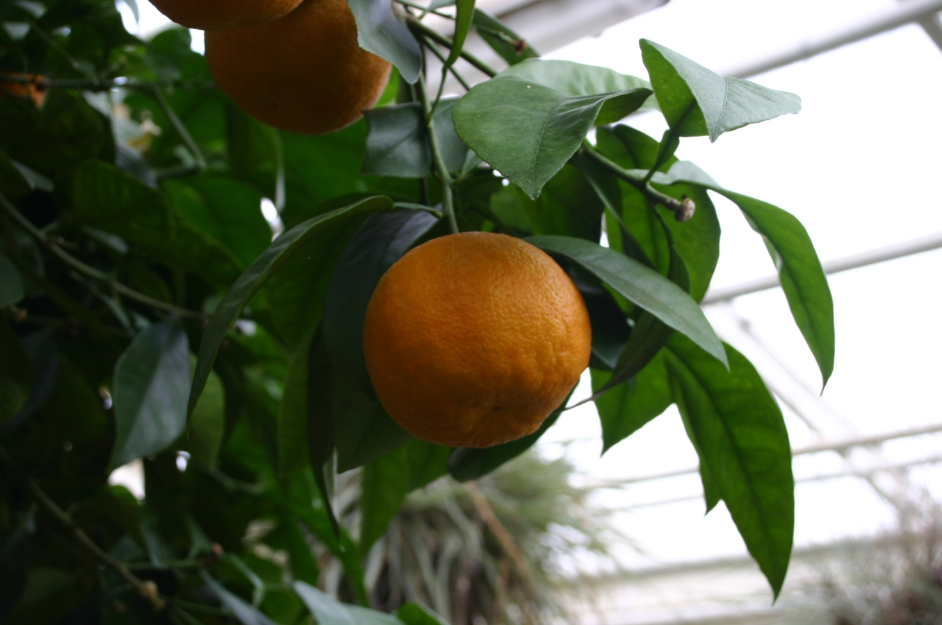 Citrus aurantium: Fruits and foliage.